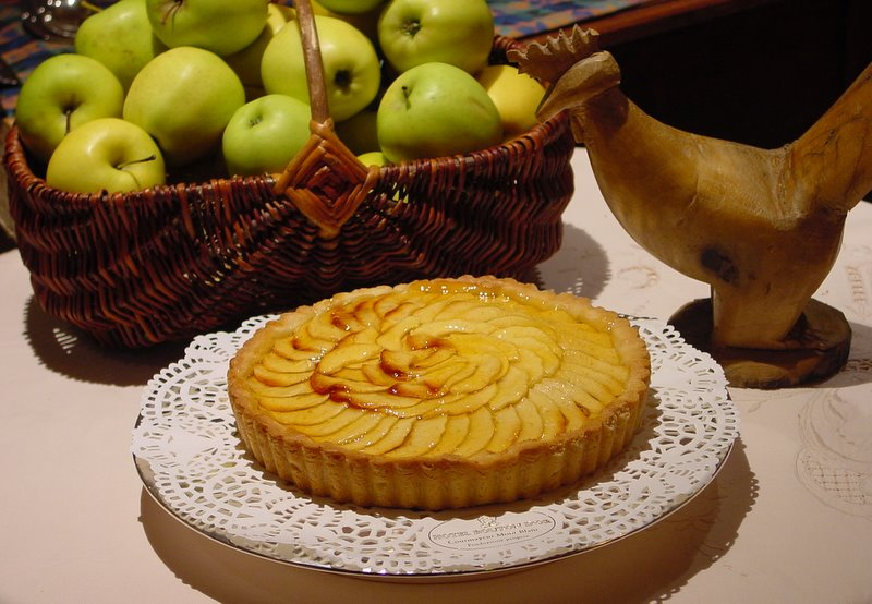 Apple pie.